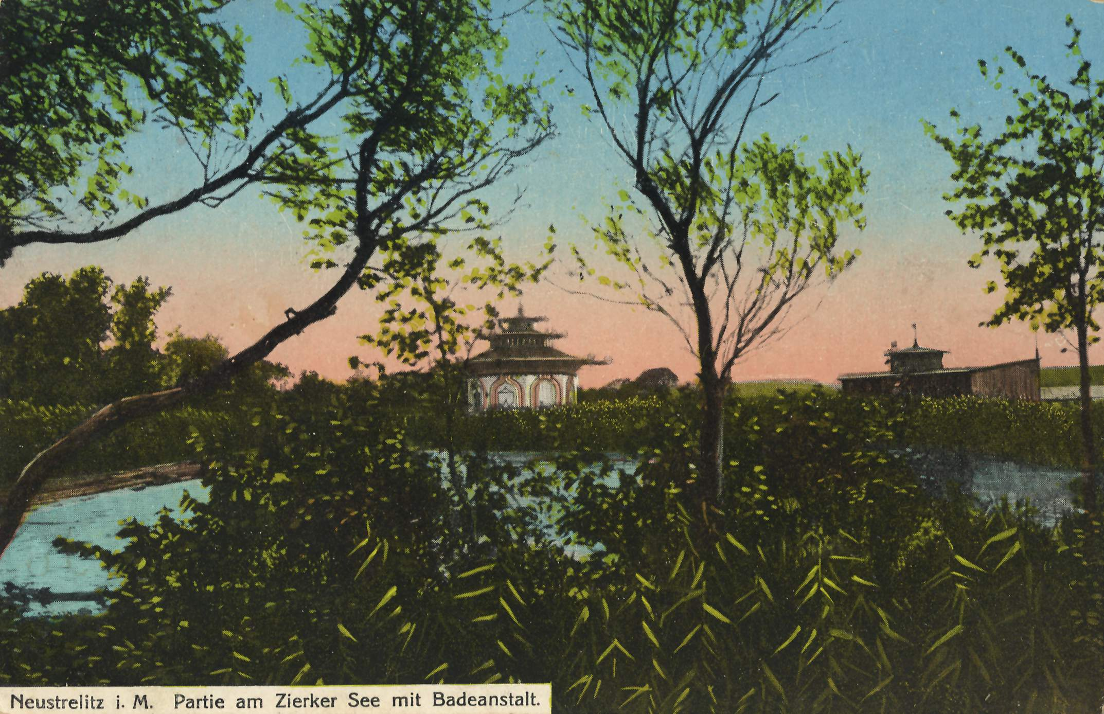 Postcard from 1918 showing lake Zierker See and its baths in Neustrelitz.